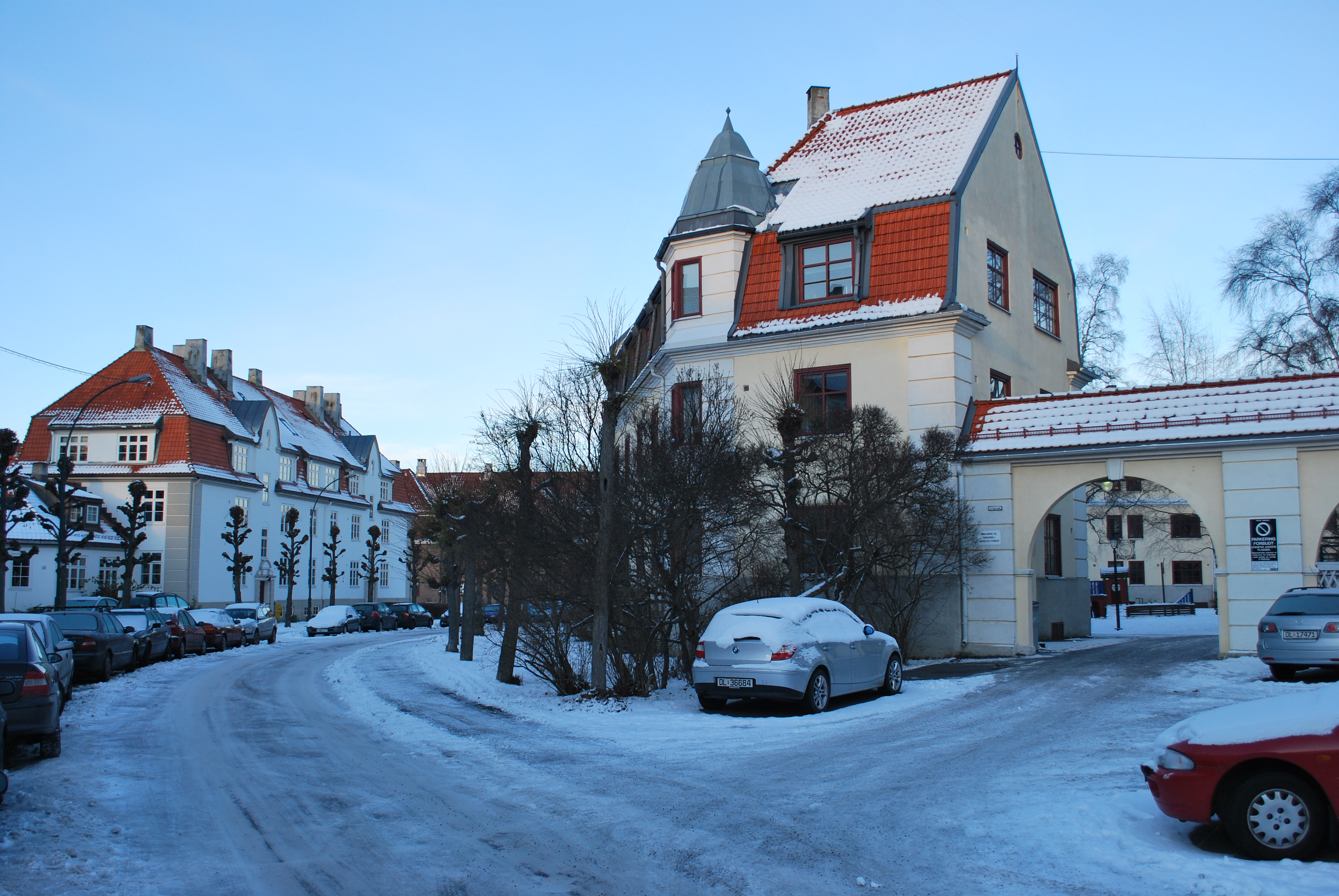 Neobaroque apartment blocks, Fayes gate (street), Lindern neighbourhood, Oslo